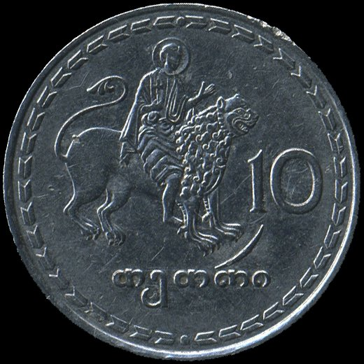 10 Georgian tetri